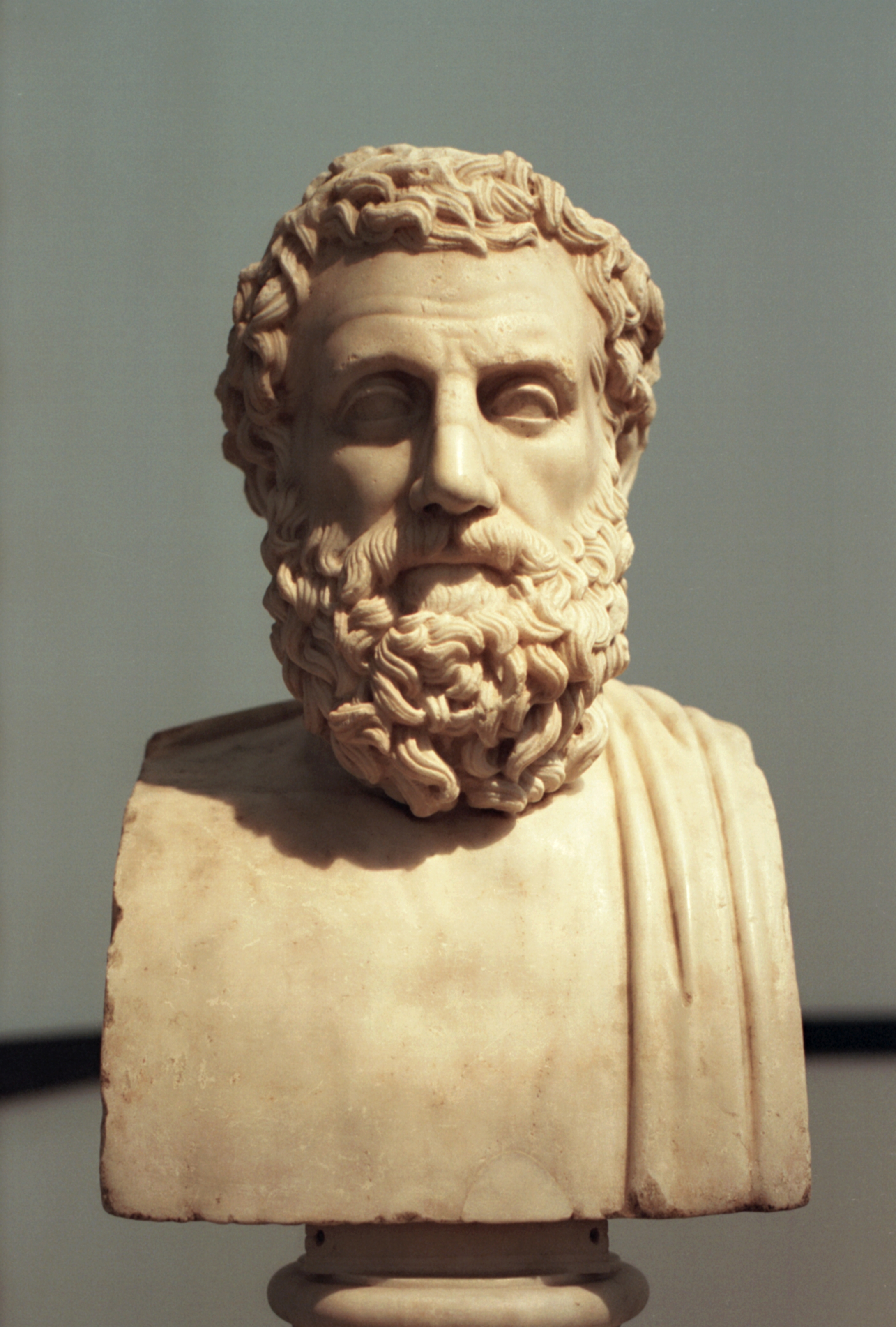 Herma of Aeschylus (Aischylos). Roman bust from the time around 30 BC after Greek bronze herma from the years 340-320 BC. Naples National Archaeological Museum. Photo from the exhibition Klassik 2002 in Berlin.